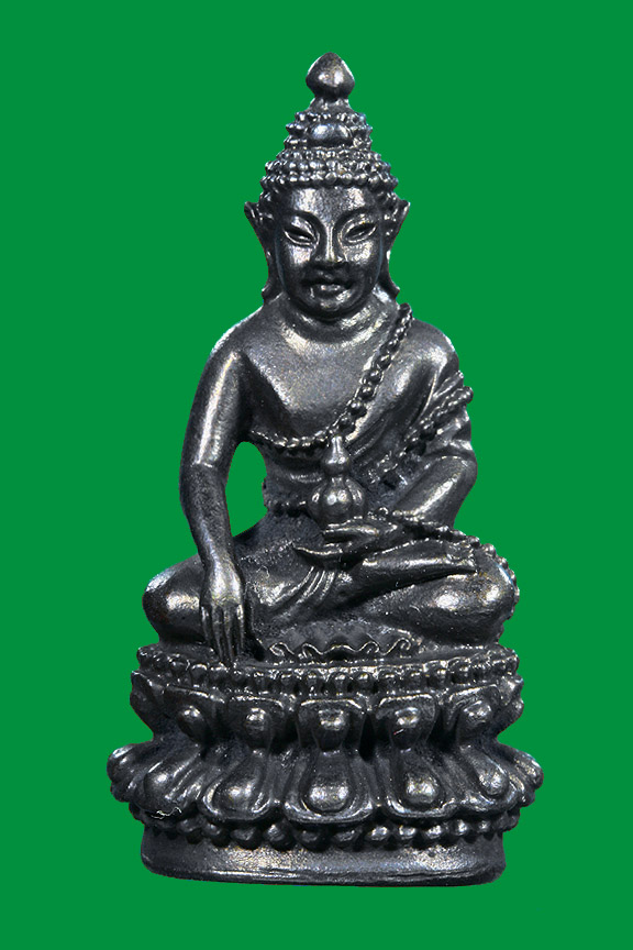 พระกริ่งชินบัญชร หลวงปู่วิเวียร บุญมาก พ.ศ. 2537